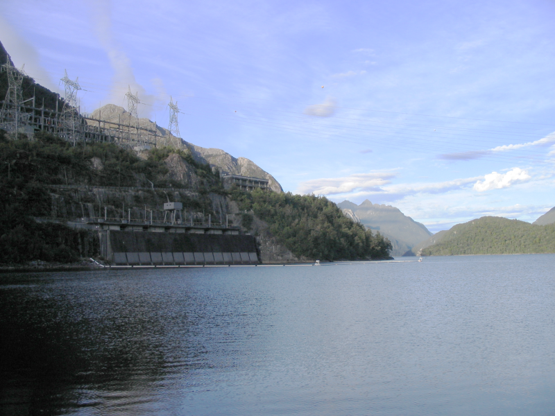 External view of Manapouri Powerstation and Lake Manapouri. At the top you can see the switchyard, and the pylons supporting the 220kV high-voltage cable span across the lake. Below the switchyard at lake level are the seven head-gates that allow engineers to de-water the generation units so that they can perform engineering work. Behind the head-gates are the penstocks - tunnels in the rock that descend vertically some 200 metres to the power hall below. Infront of the head-gates you can see a log-boom that prevents debris being swept into the turbines. In the distance, below the transmission cables you can see the station control building.